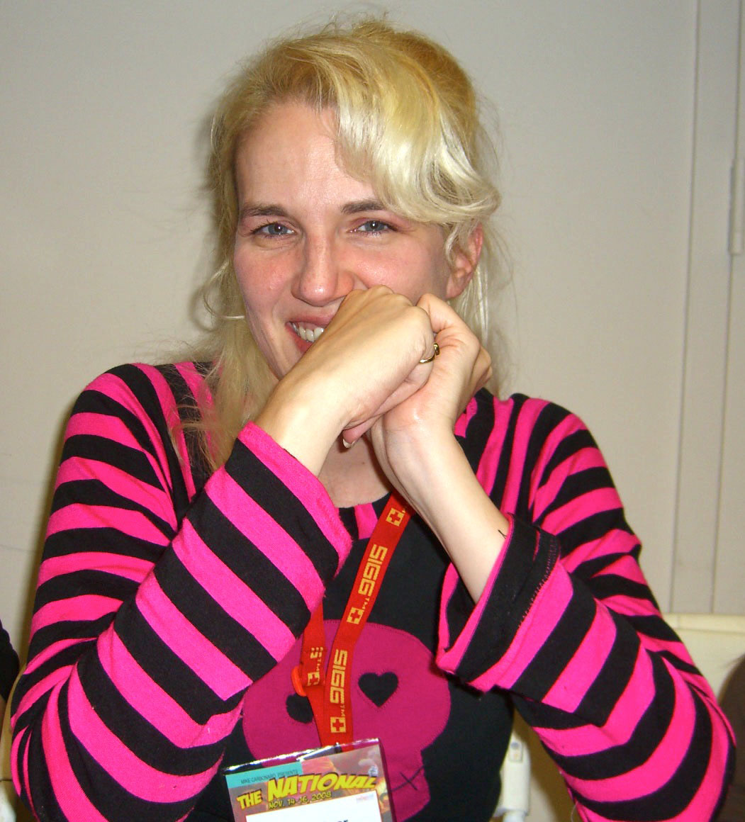 Comic book creator Sarah Dyer at the November 2008 Big Apple Convention in Manhattan. Photo by Luigi Novi. This photo may be used, modified and published for any purpose, only if the photographer is visibly credited in each instance in which it is used. (See licensing information below.) For more information on my photos, you can contact me here.